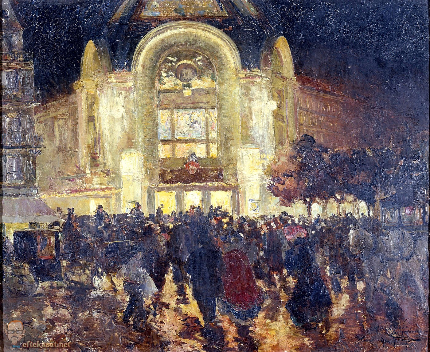 Louis Abel-Truchet (French, 1857-1918): The Gaumont Palace enlightened in the night